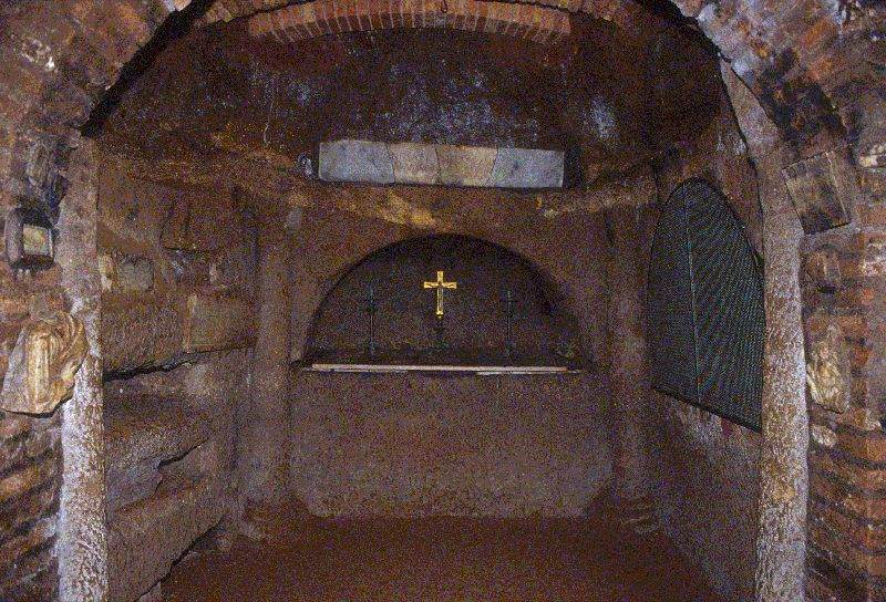 Retrieved from